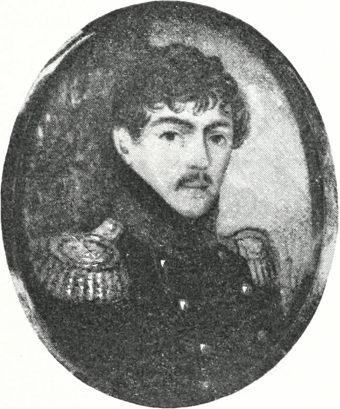 Portrait of Matvey Alexandrovich Dmitriev-Mamonov (Матвей Александрович Дмитриев-Мамонов, (1788 – 1863), a Russian General.